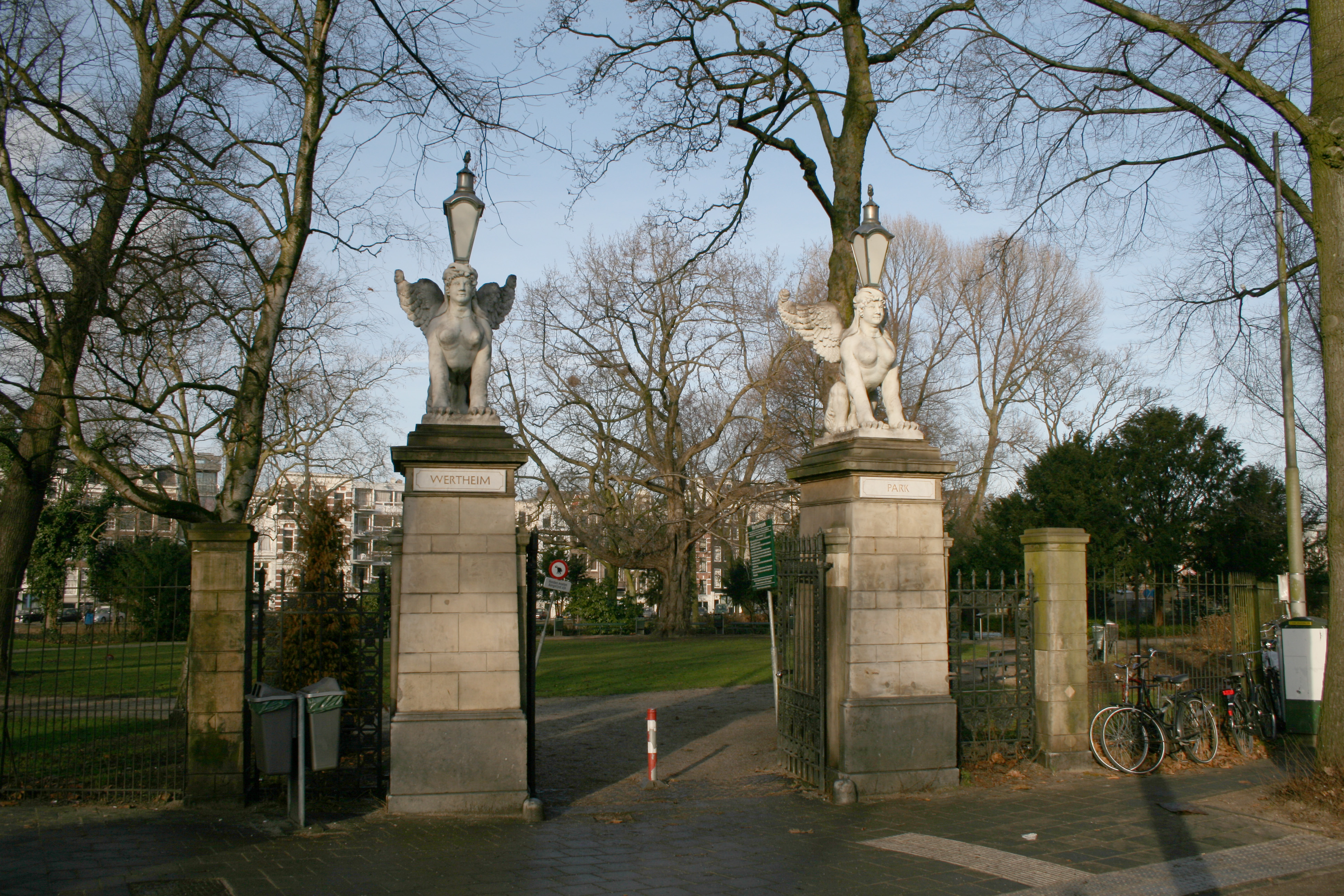 Sculptures Sfinxen (1982) by Hans 't Mannetje, Plantage Middenlaan/Wertheimpark ingang (entrance) in Amsterdam/The Netherlands